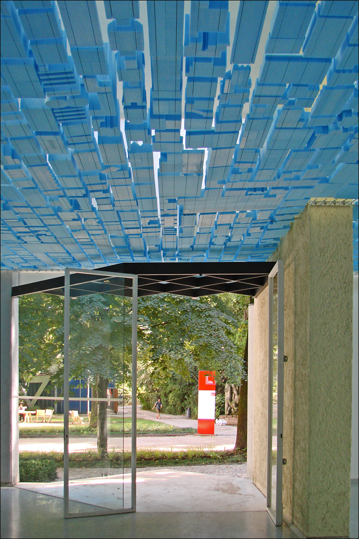 The Netherlands Vacant NL Where architecture meet ideas the installation 'vacant NL' calls upon the dutch government to make use of the enormous potential of inspiring, temporarily unoccupied buildings from the 17th, 18th, 19th, 20th and 21st centuries for innovation within the creative knowledge economy. Mostra Internazionale di Architettura Exposition internationale d'architecture Venezia / Venise "People meet in architecture" du 29/08 au 21/11/2010 le site de la Biennale